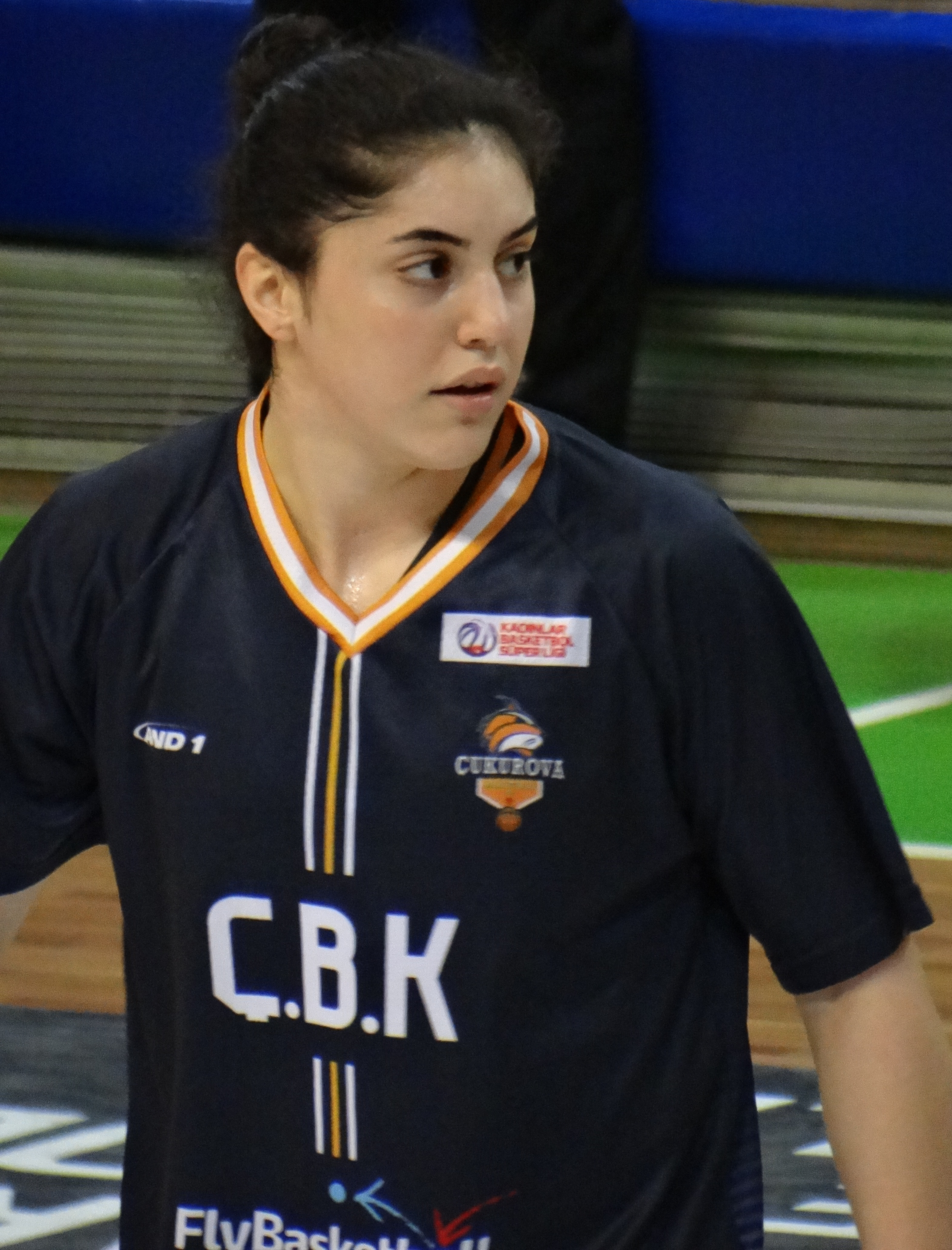 Gökşen Fitik 6 Çukurova BK TWBL 20181229